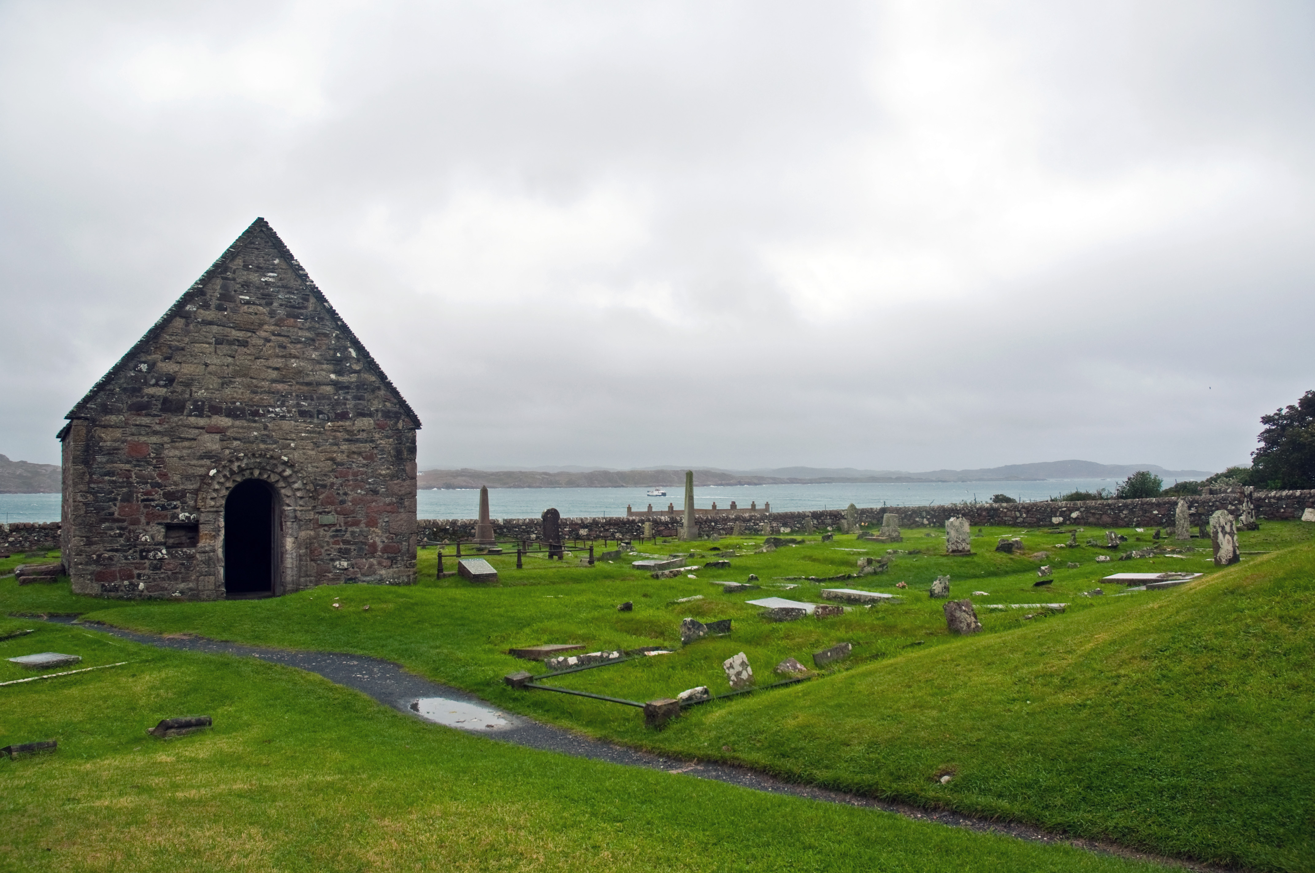 St. Oran's Chapel, Iona, Scotland, Sept. 2010